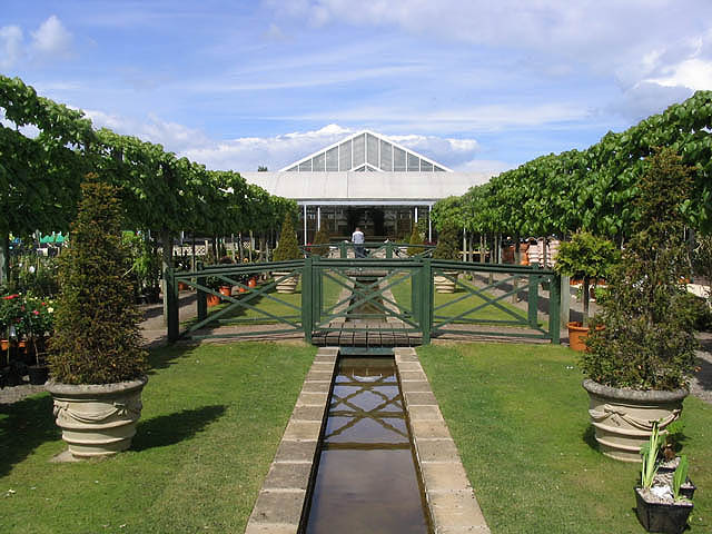 Dobbies Garden Centre, Lasswade Dobbies Garden World at Melville Nurseries, Lasswade, is typical of the facilities at modern garden centres nowadays, with a restaurant, gift shop and leisure wear and furniture department in addition to an extensive range of plants and gardening equipment.